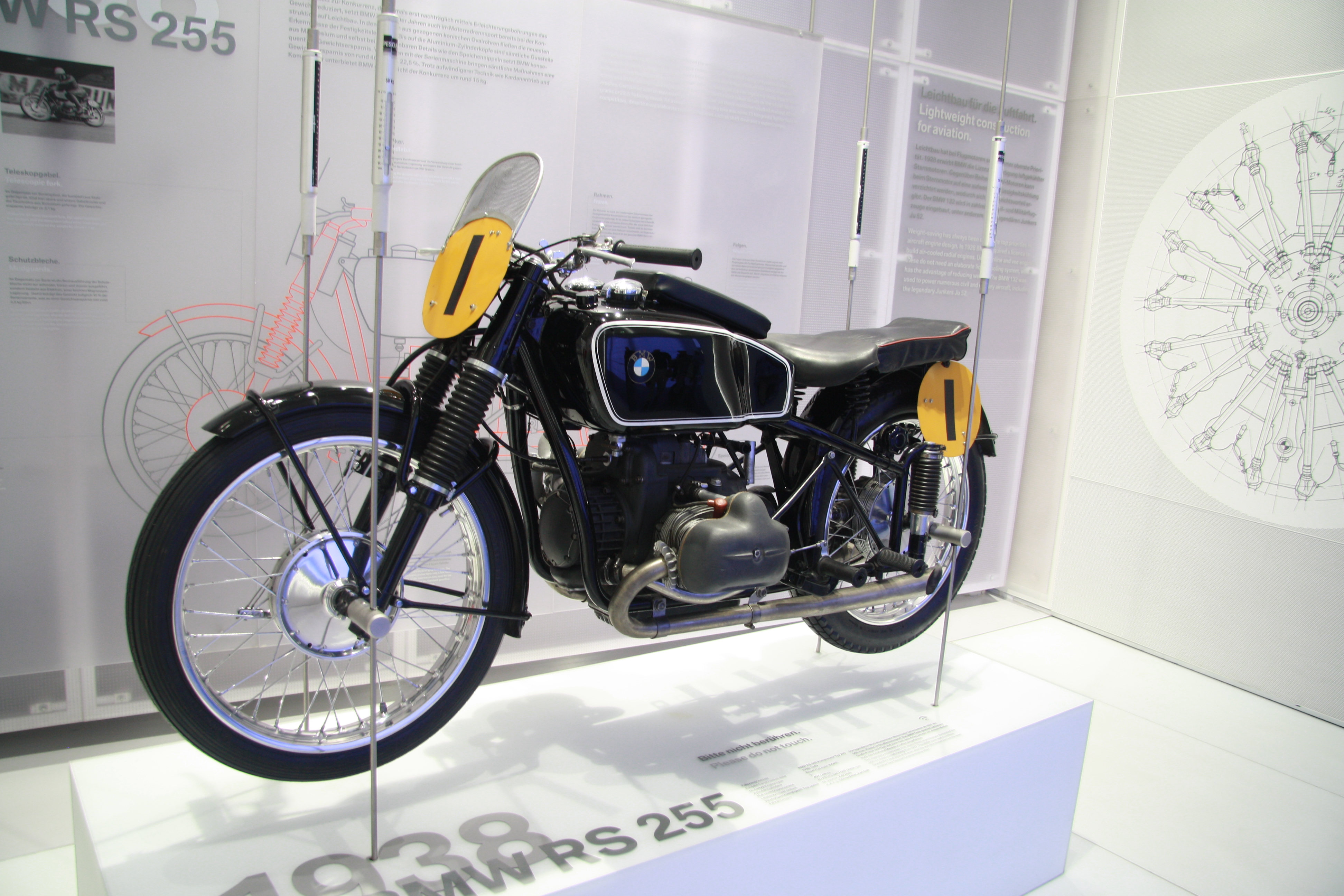 BMW RS 500 Kompressor Typ 255 in BMW-Museum in Munich, Bayern.